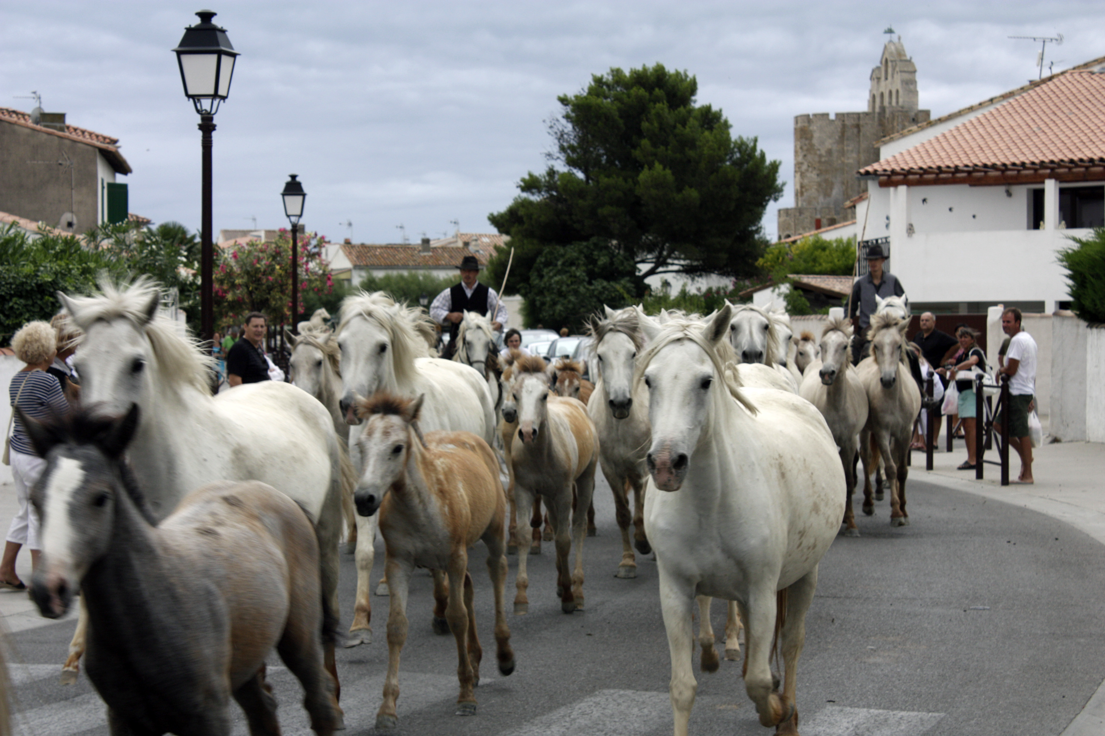 Cavalcade on the occasion of the celebration of the horse.